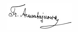 Franciszka Arnsztajnowa (1865 - 1942) - Polish poet, playwright, and translator of Jewish descent.